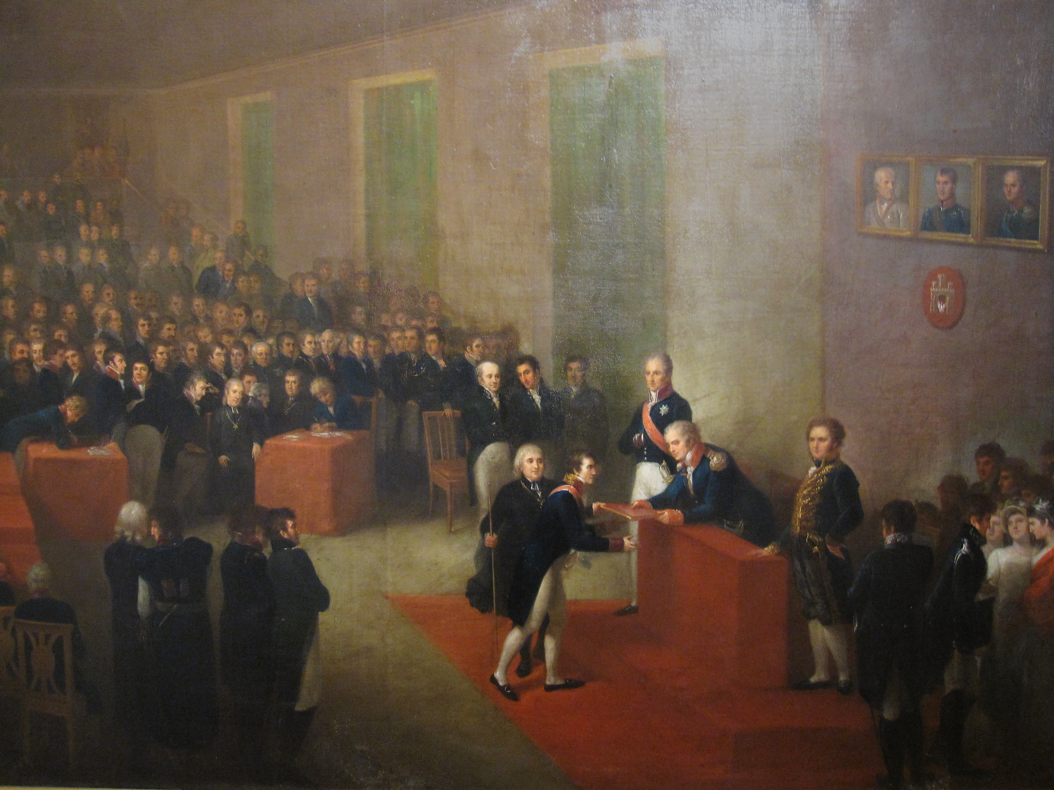 The act of granting the constitution to the Free City of Cracow. Oil on canvas, Jagiellonian University.